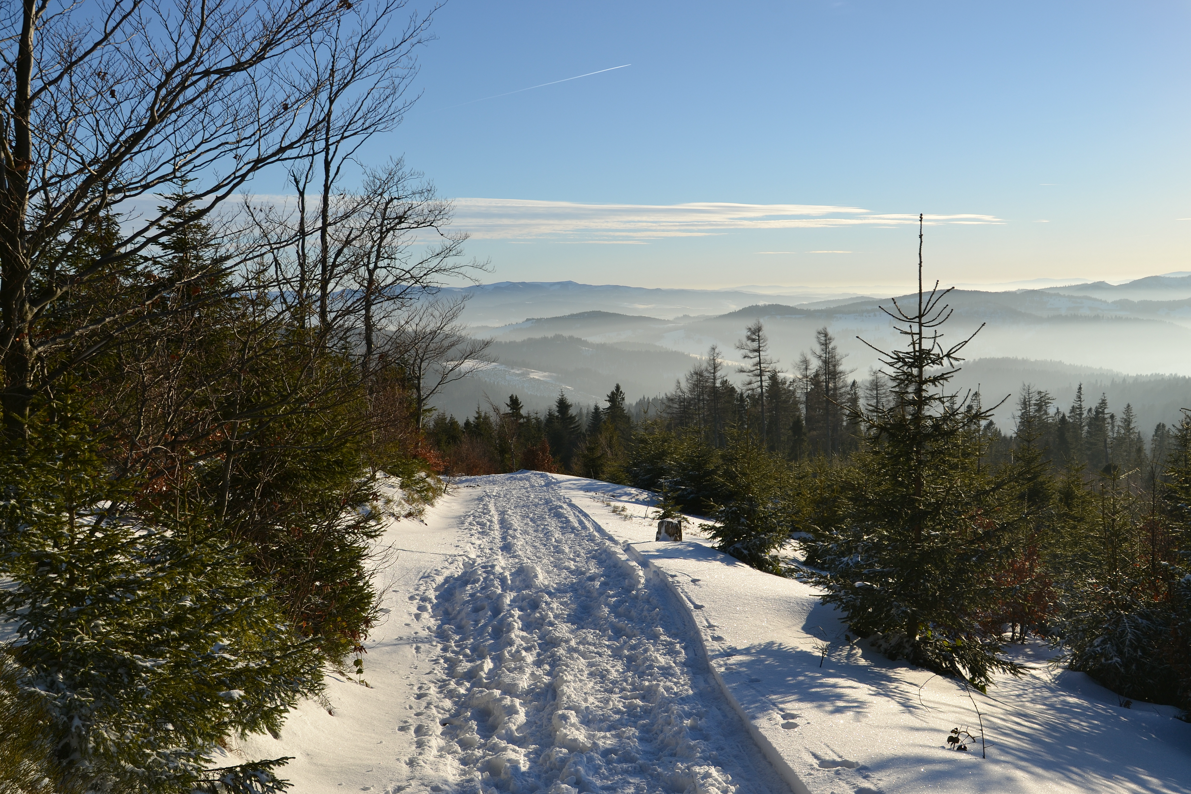 Beskid Sądecki mountains (Poland) in winter 2016/2017